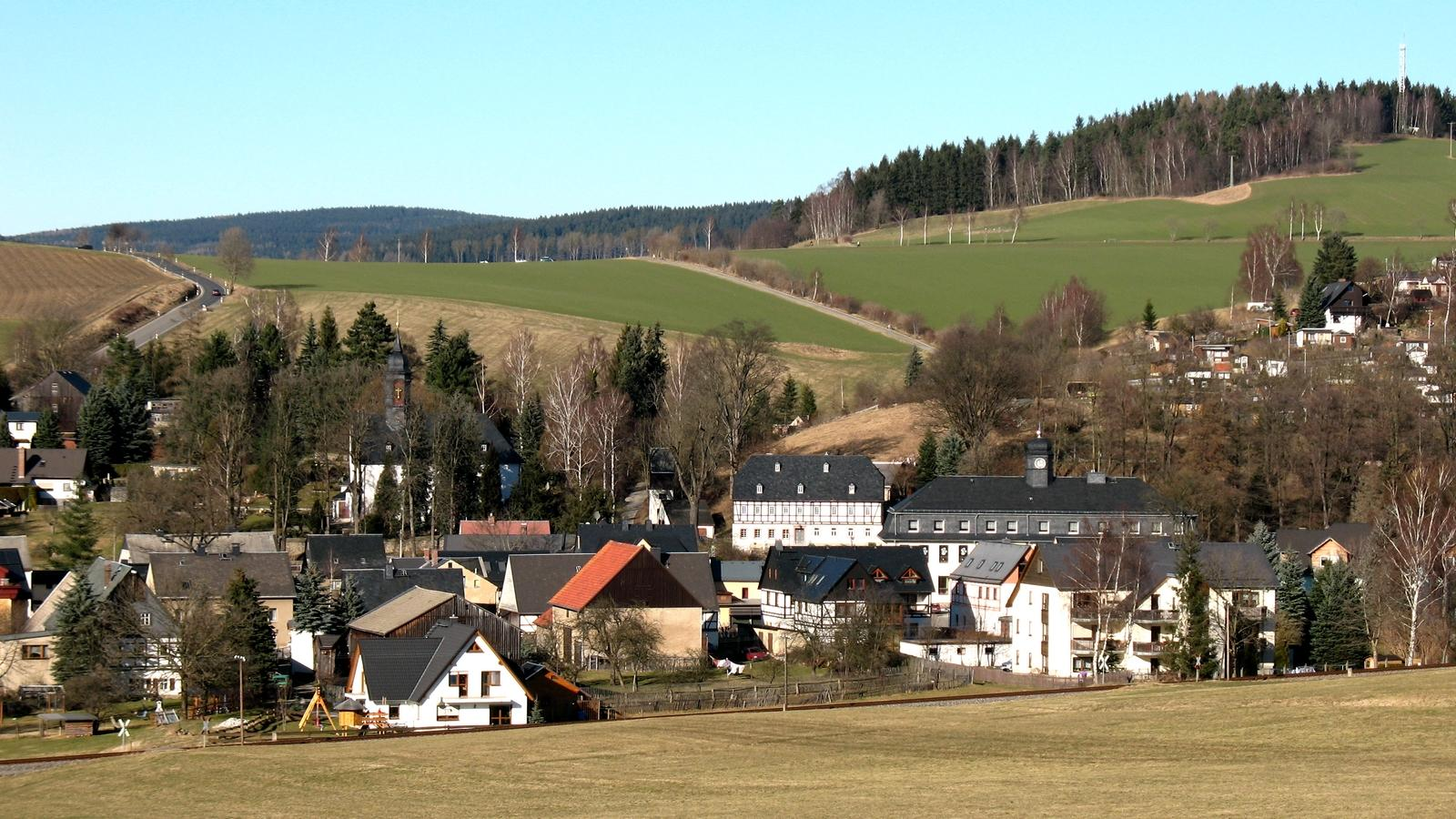 Raschau: Mitteldorf